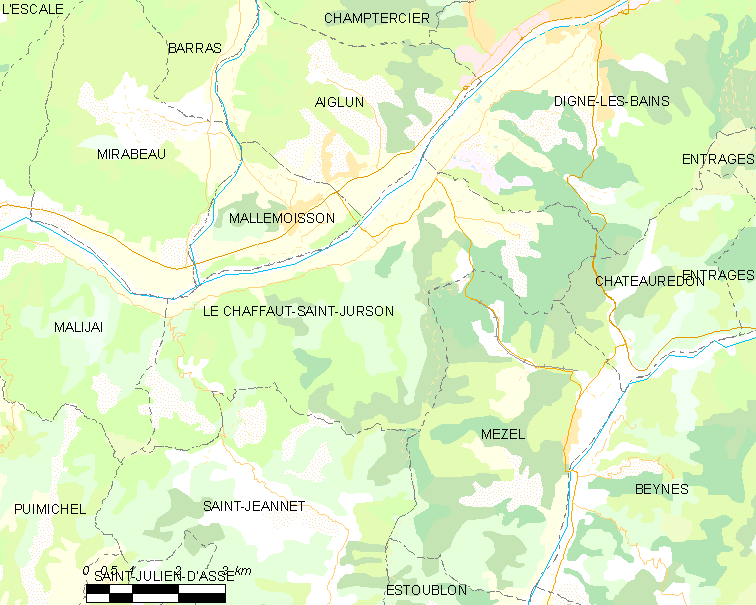 Map commune FR insee code 04046.png Légende